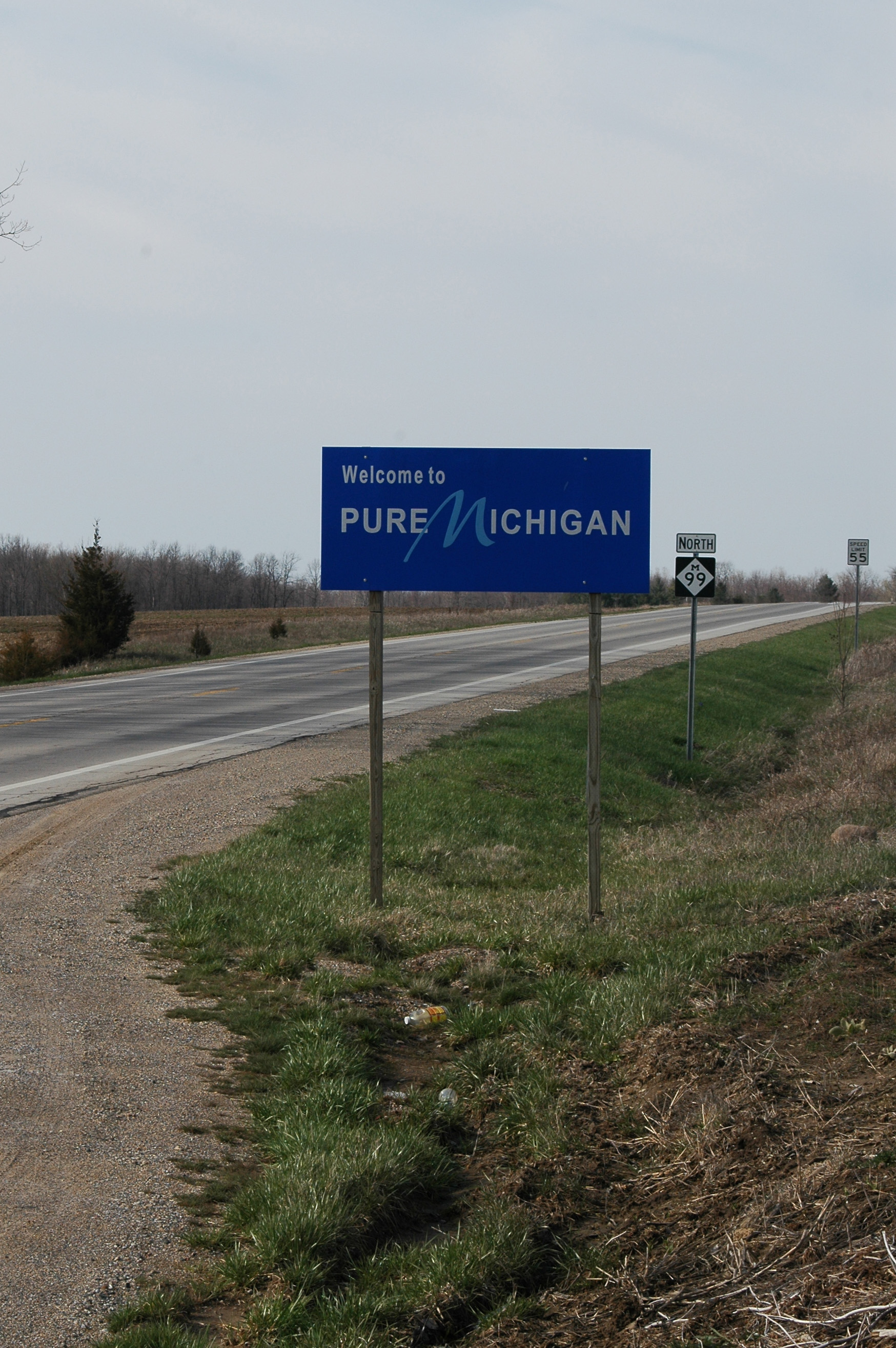 Welcome sign on M-99 south of Hillsdale, Michigan